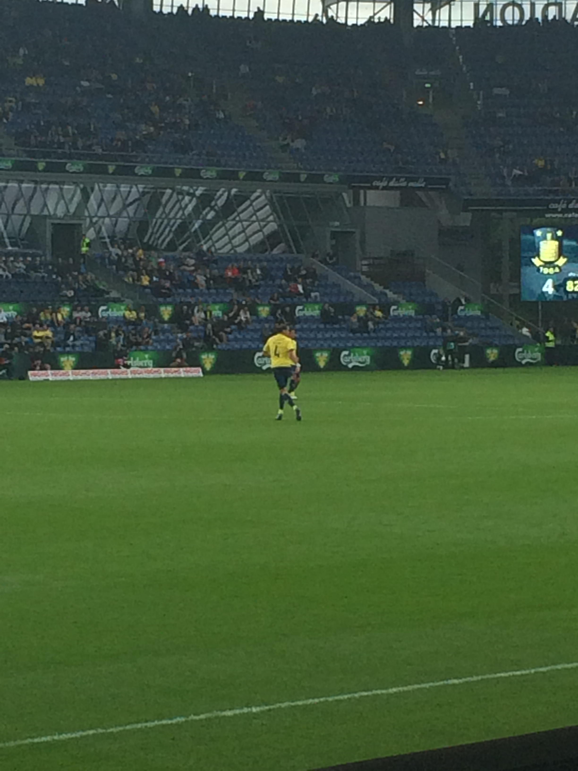 Röcker playing for Brøndby IF against Esbjerg fB in the Danish Superliga in the premier match of the 2016-17 season (July 17, 2016)